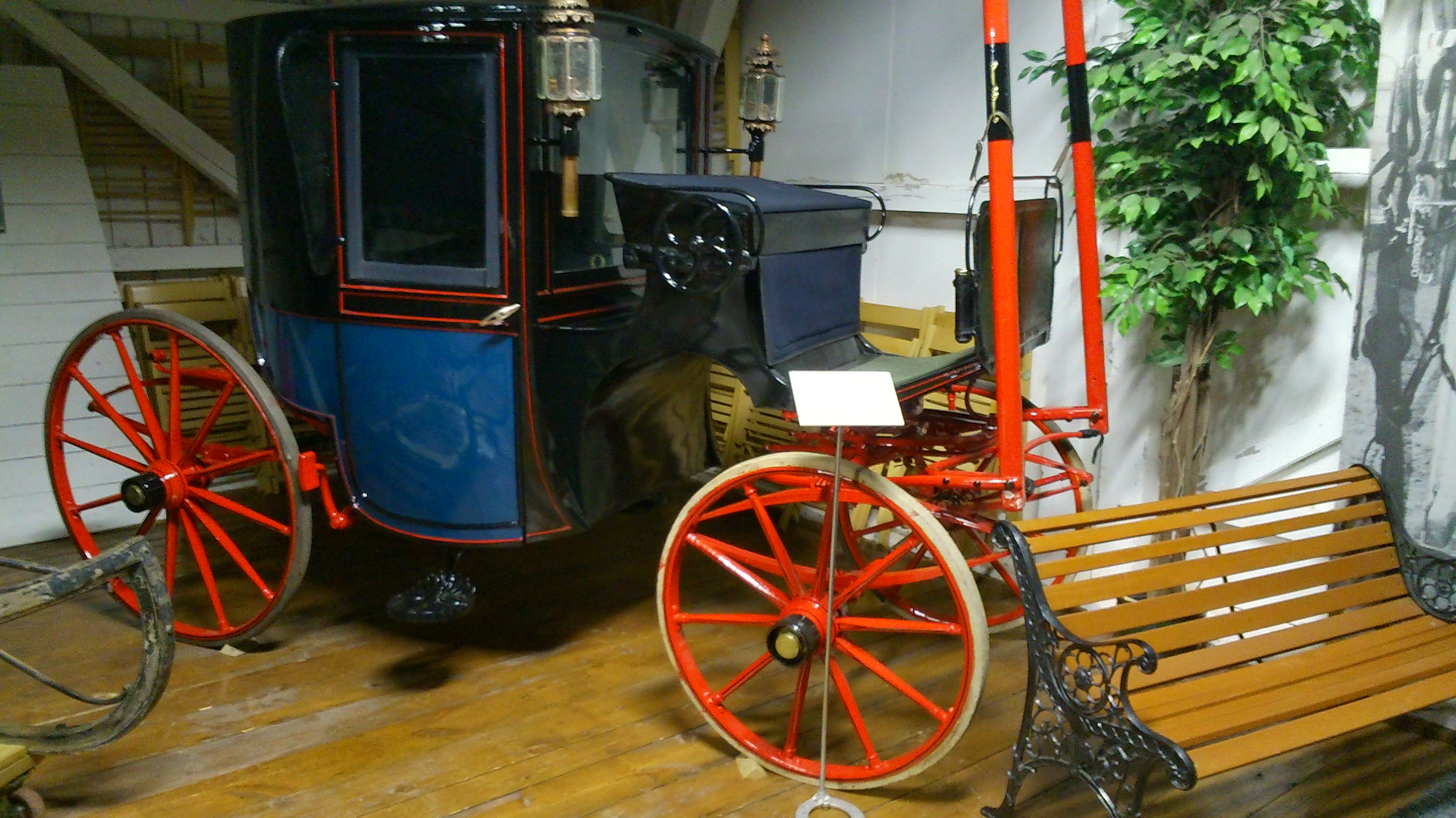 Brougham (carriage)